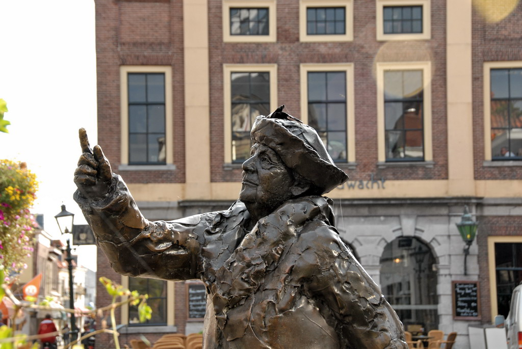 Statue of Queen Wilhelmina in Brielle, made by Carol Cairns.